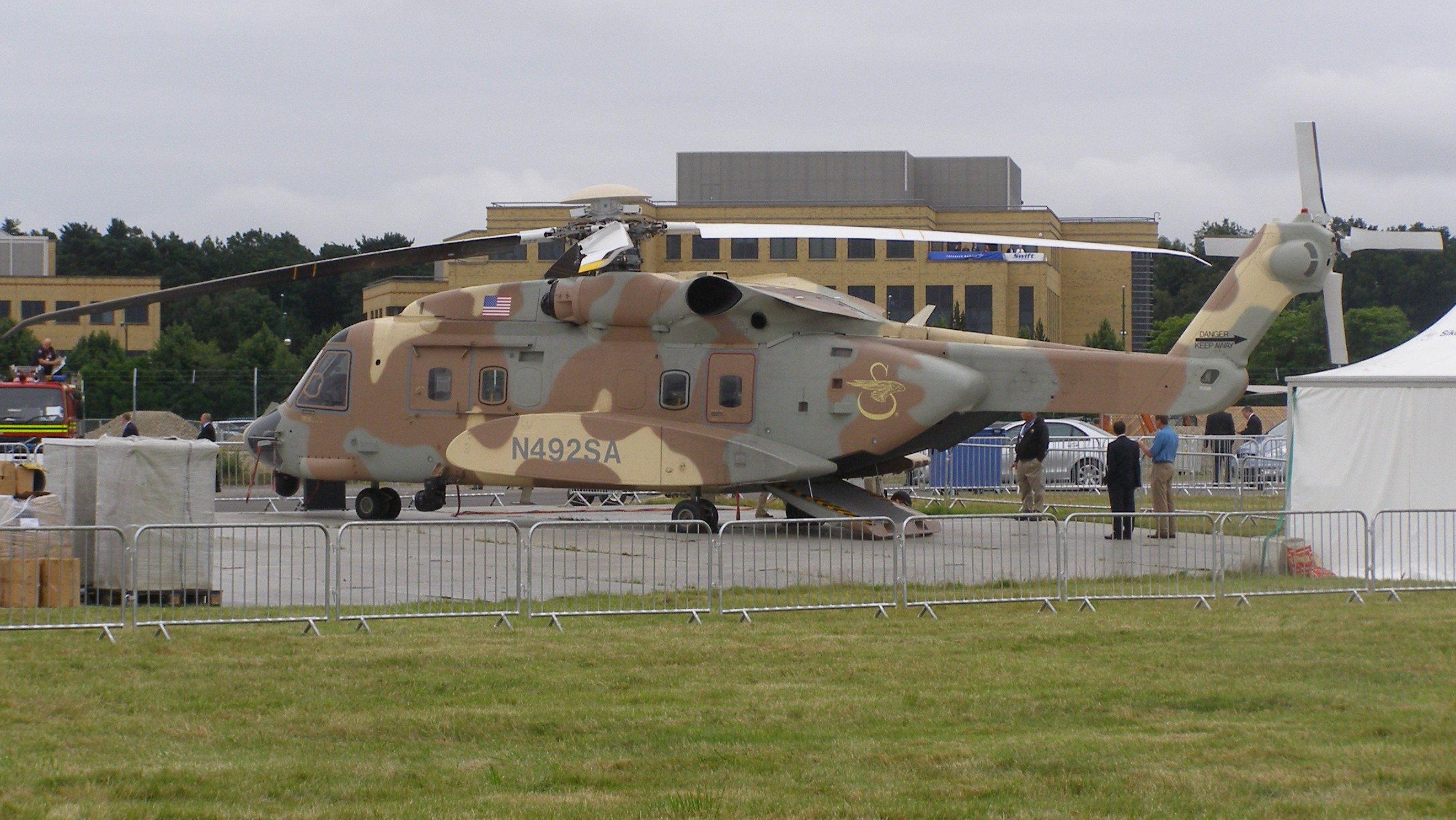 Sikorsky S-92 (registered N492SA) on display at Farnborough 2008